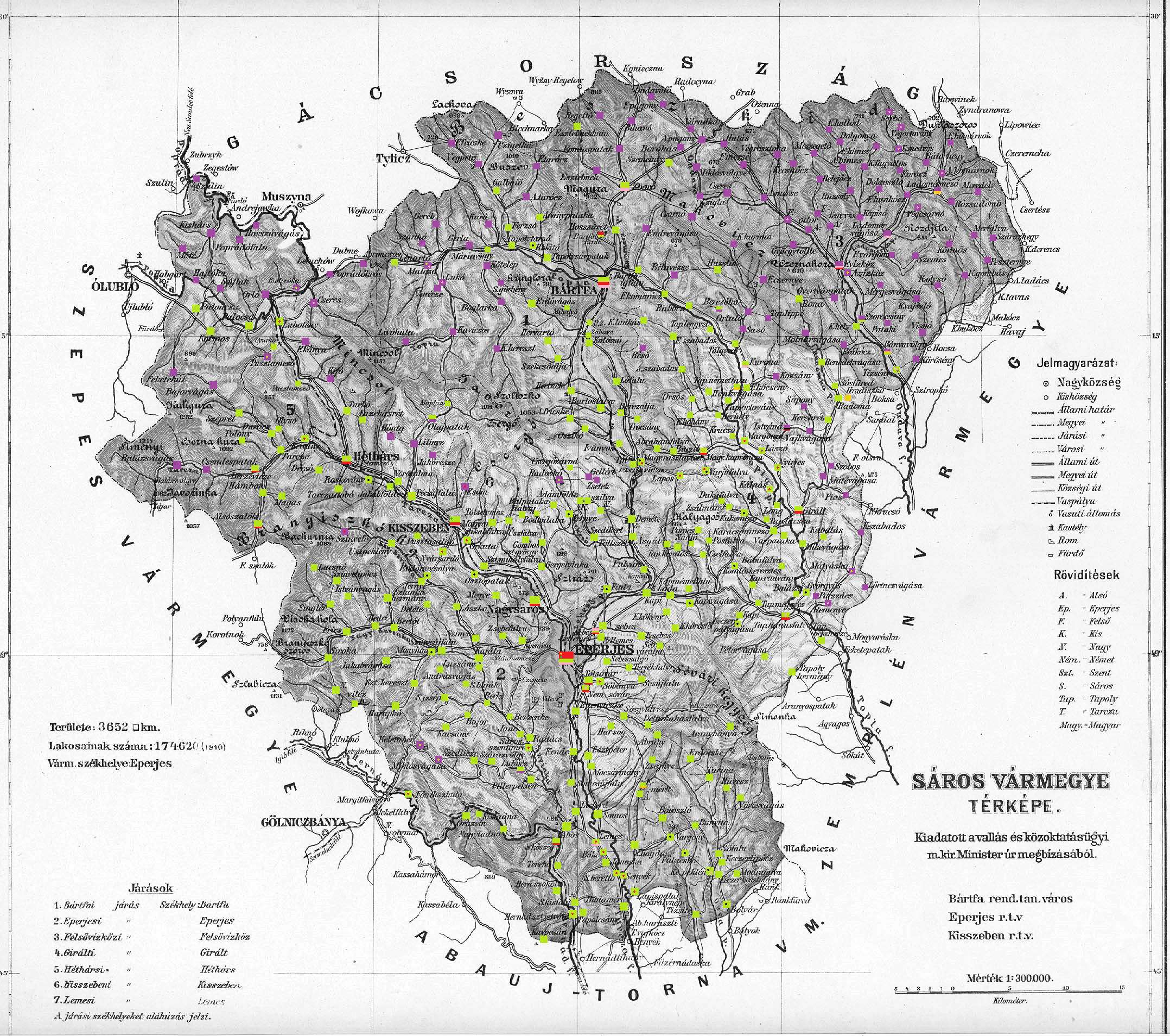 Ethnic map of the county (with data of the 1910 census). Key: light green - Slovaks; violet - Ruthenians; red - Hungarians; pink - Germans; black - Roma; orange - Polish. Coloured dots in plain rectangles imply the presence of smaller minority populations (generally more than 100 people or 10%). Multicoloured rectangles imply cities and villages with multi-ethnic populations with the order of the stripes following the ethnic composition of the settlement.